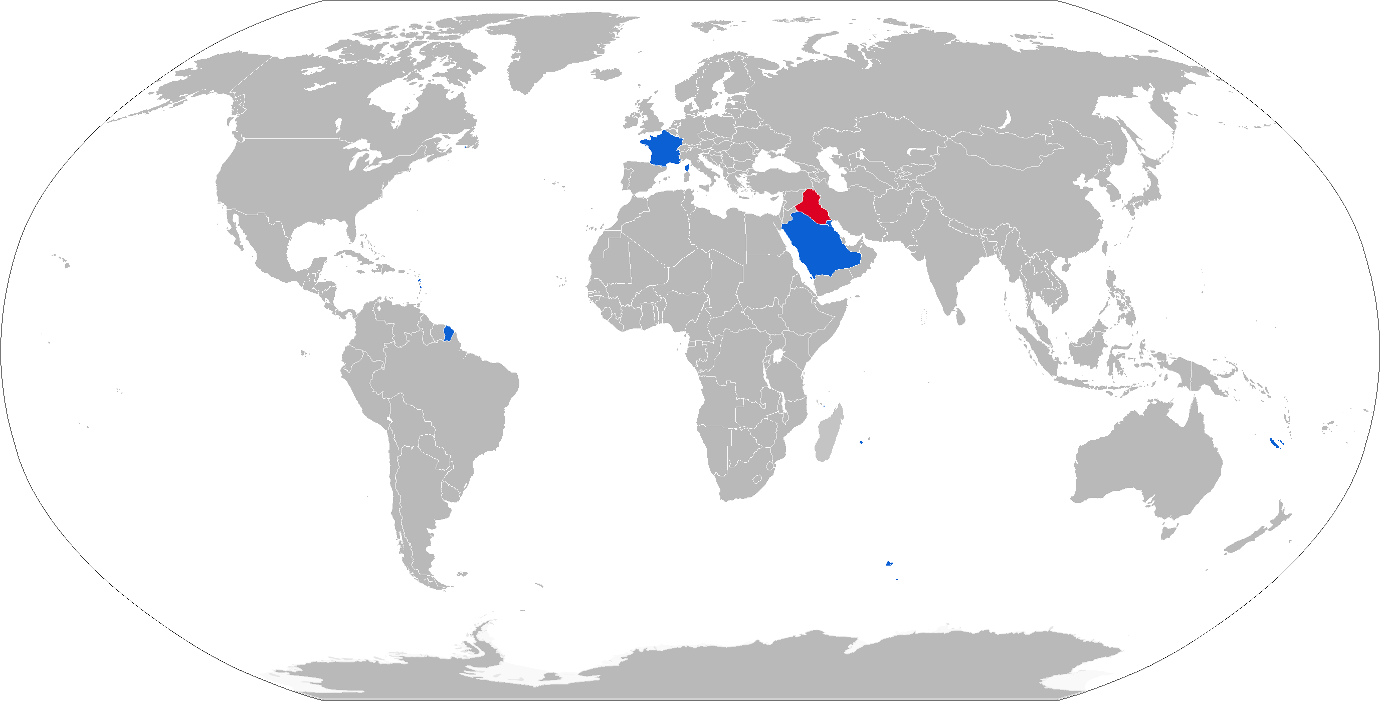 Map of GCT 155mm operators in blue